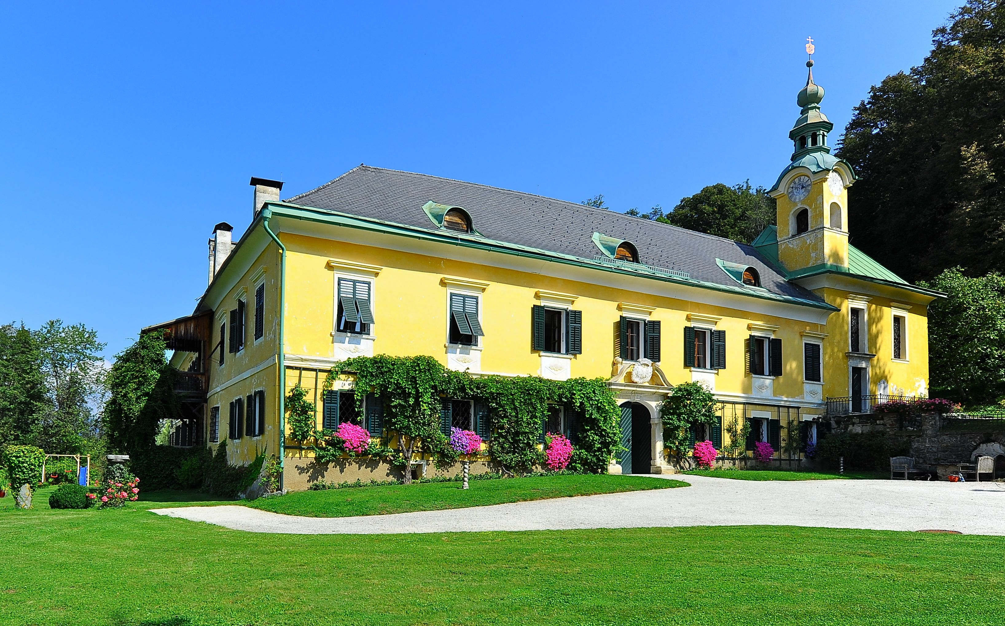 Castle Karlsberg at Karlsberg #1, municipality Sankt Veit an der Glan, Carinthia / Austria / EU